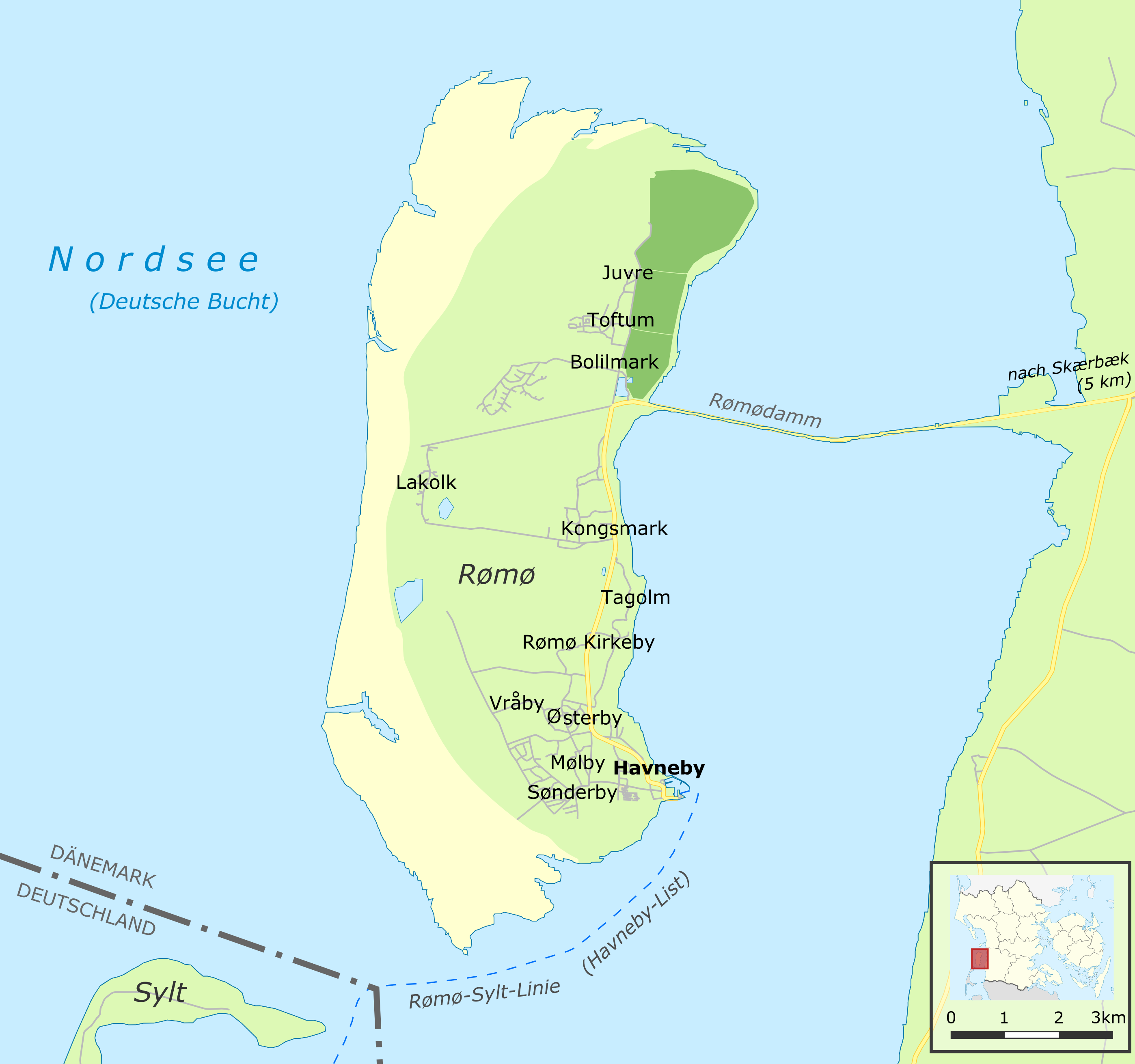 Map of the Danish Island Rømø in the North Sea This map may be incomplete, and may contain errors. Don't rely solely on it for navigation.